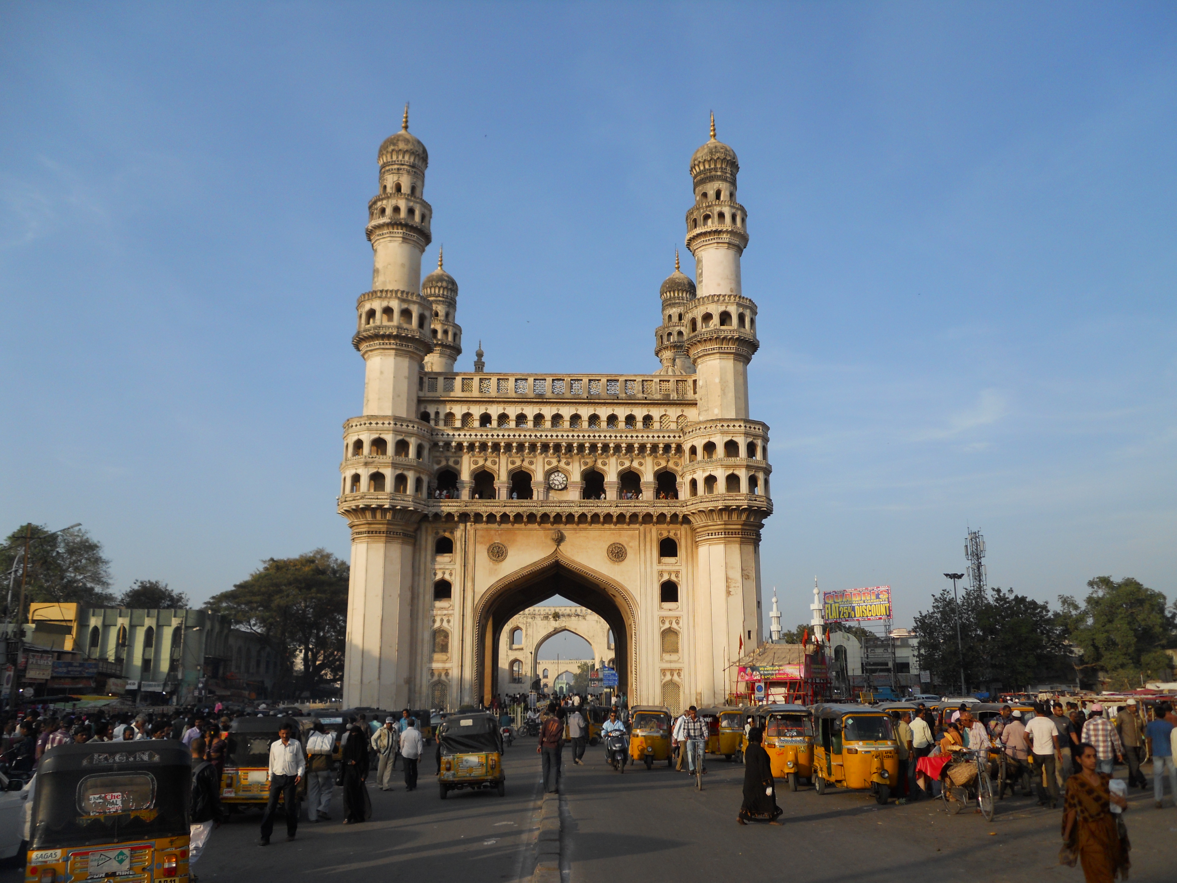 A monument located in Hyderabad, Andhra Pradesh